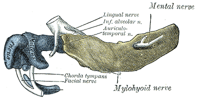 Mandible of human embryo 24 mm. long. Outer aspect. (From model by Low.)